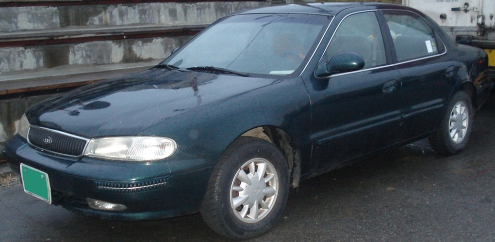 Kia Credos